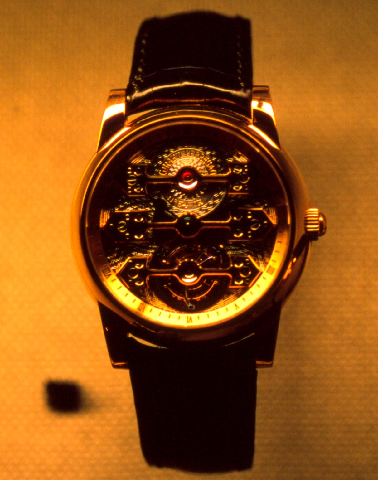 Girard-Perregaux's Tourbillon sous trois ponts d'or . Musée International d'Horlogerie, La Chaux-De-Fonds, Switzerland